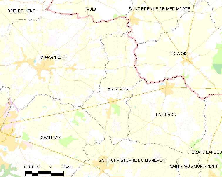 Map of French municipality Froidfond